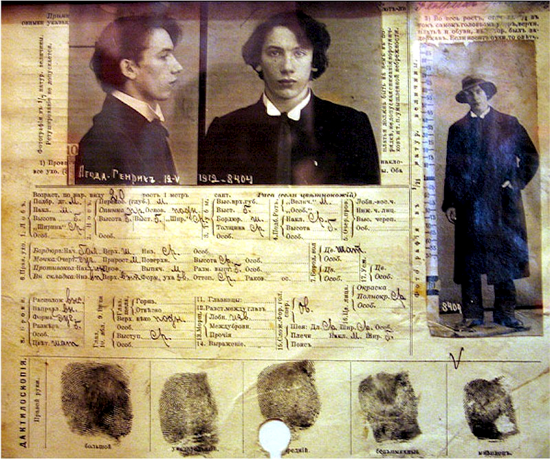 Genrikh Jagoda (file card from moskowian records of secret czarist police Okhrana )